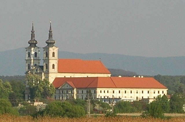 Šaštín-Stráže, basilica